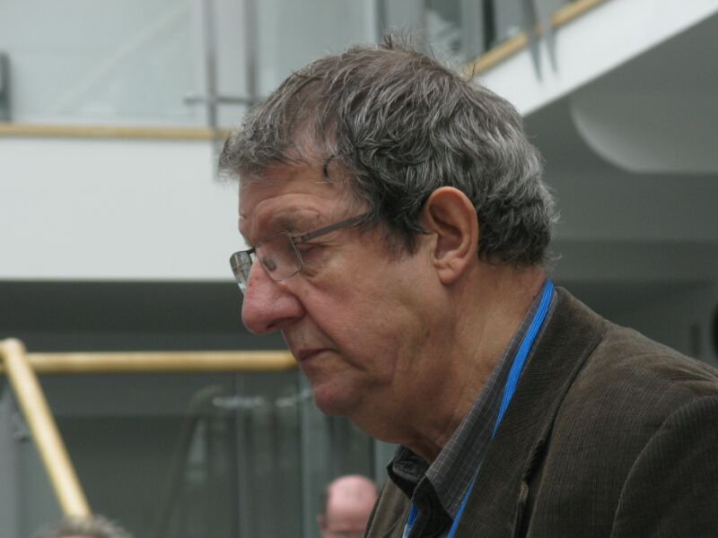 Chris Serle at the BBC Micro 30th anniversary in 2012